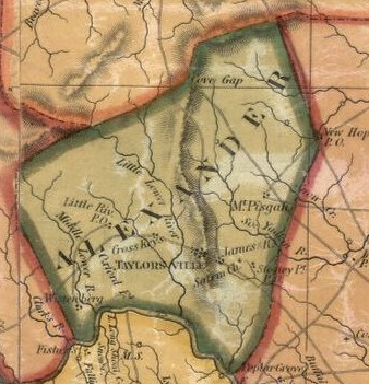 Alexander County Map from North Carolina Map by Wellington Williams created in 1854 for the North Carolina Legislature. Shows boundaries, cities and towns, churches, mills, principal roads, plank roads, railroads, gold mines, and natural features.